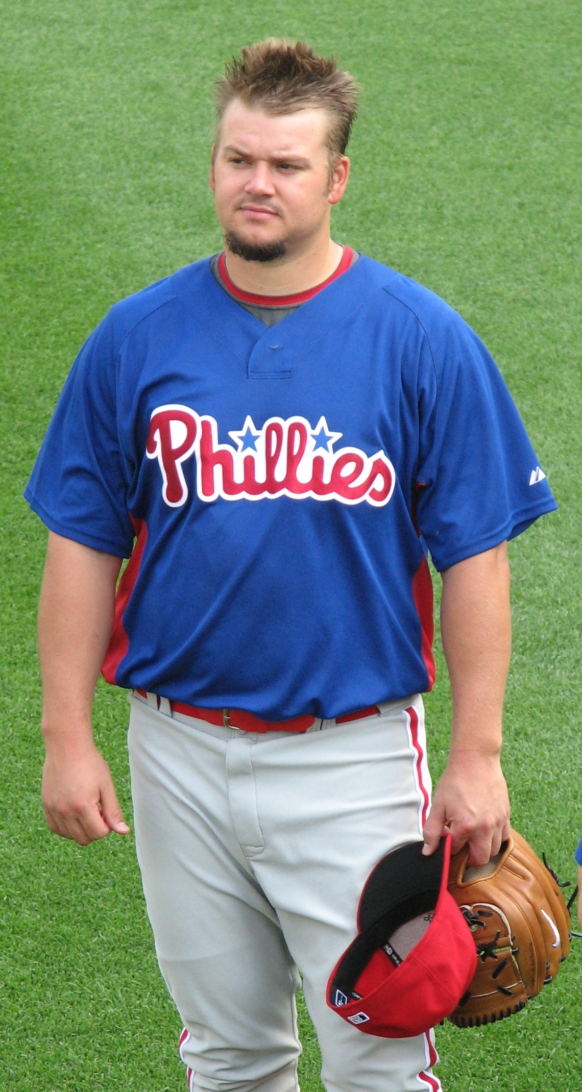 Description Joe Blanton during pregame warmups against the Nationals on July 31, 2008 Date1 August 2008SourceI created this work entirely by myself.AuthorKV5 • Squawk box • Fight on! 15:35, 1 August 2008 . . Killervogel5 . . 1,140×2,140 (1.98 MB) Joe Blanton during pregame warmups against the Nationals on July 31, 2008